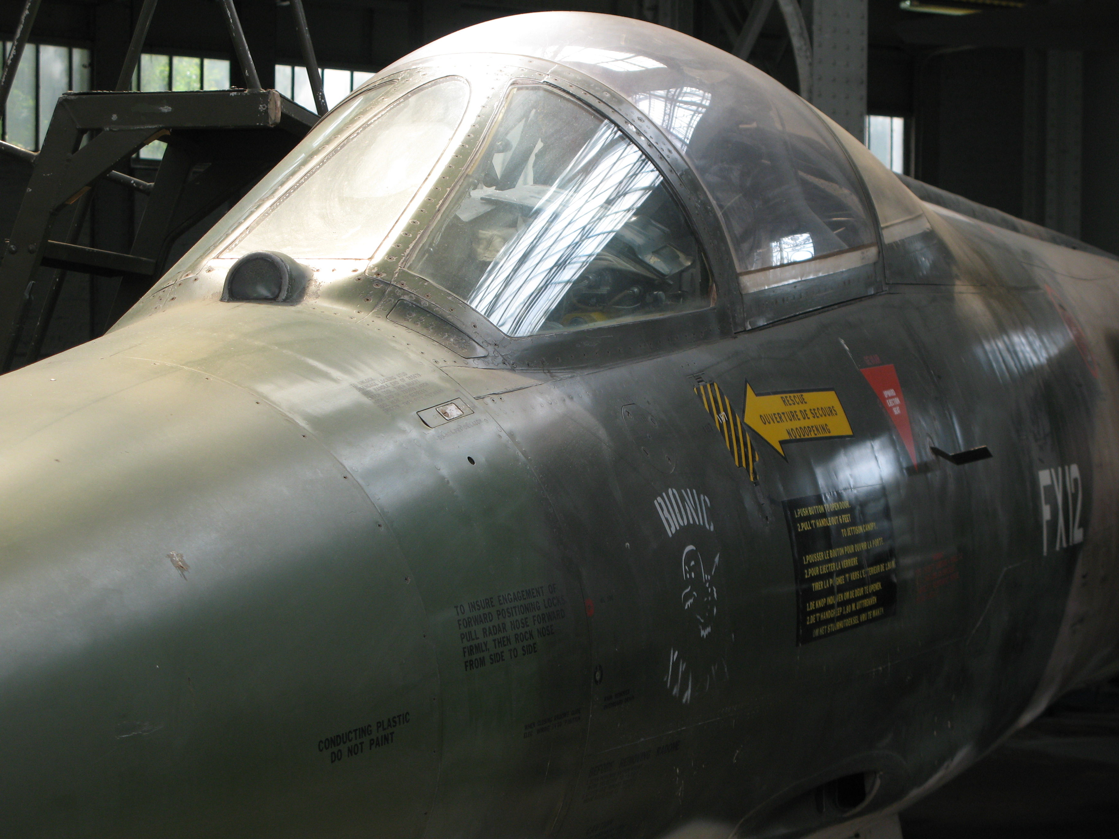 Lockheed F-104G Starfighter